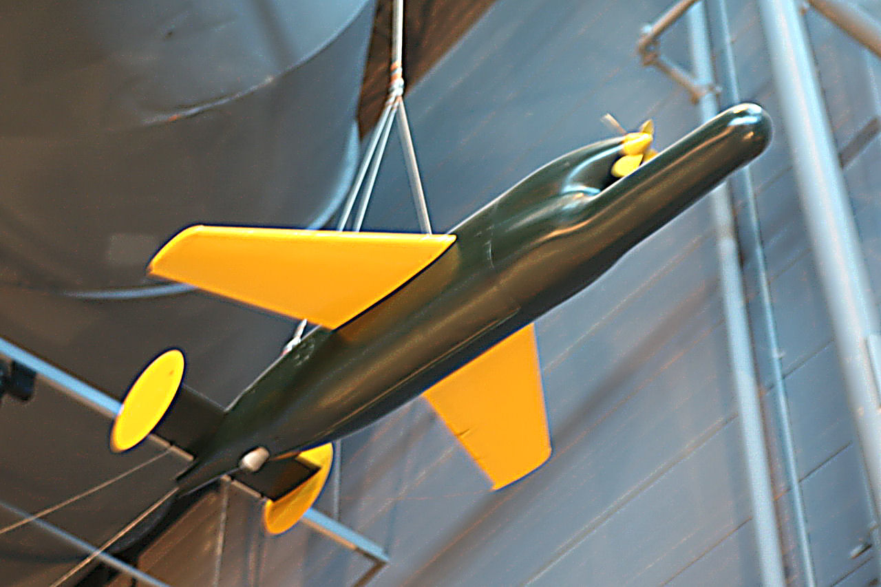 Dr. Herbert Wagner's missile group at Henschel Aircraft in World War II Germany designed this small, experimental, air-to-air missile. A Schmidding solid rocket propelled the Hs 298 for about 25 seconds, and the pilot in the launch aircraft guided it using a joystick and transmitter. The initial Hs 298 V1 design, first tested in 1944, had a different wing, square fins, a warhead on top, and a generator propeller below. Henschel built more than 300 V1s model and over 100 V2s, but the project was cancelled in early 1945 in favor of the Ruhrstahl X-4, which performed better.